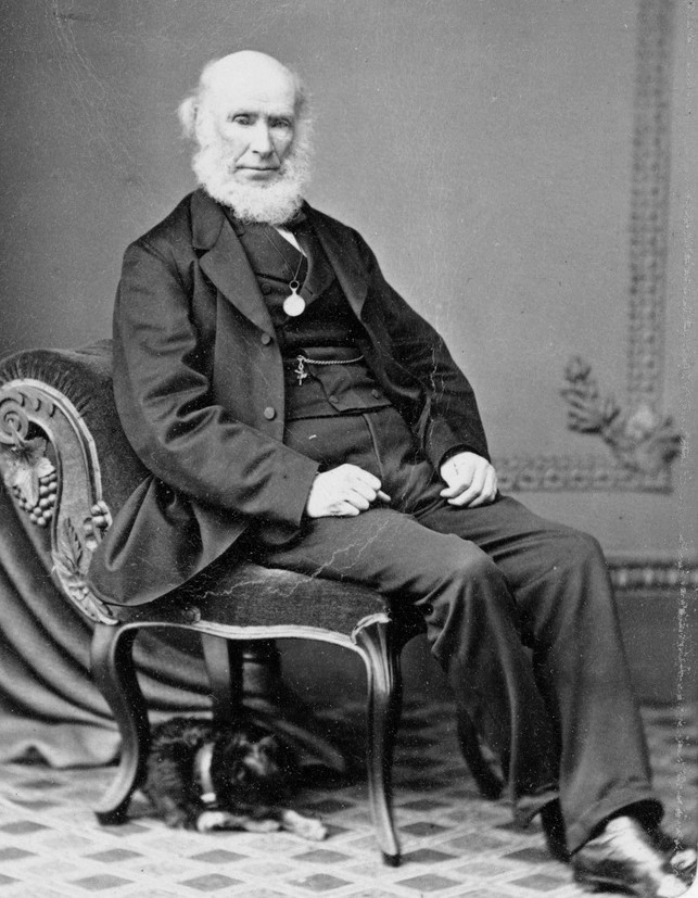 Depicted person: Charles Cooper – Australian judge